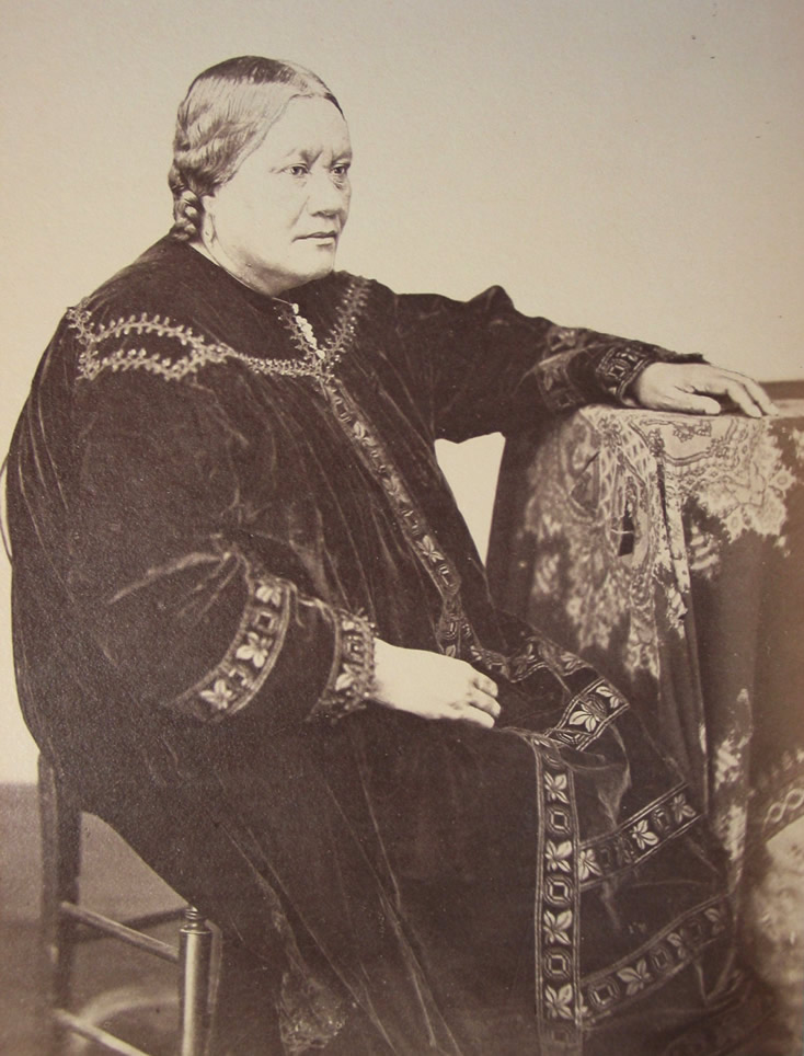 Queen Pōmare IV of Tahiti (1813-1877). Photograph by Paul-Émile Miot, 1869-1870, in Album Miot, plate 9, Service Historique de la Marine, Vincennes, France.